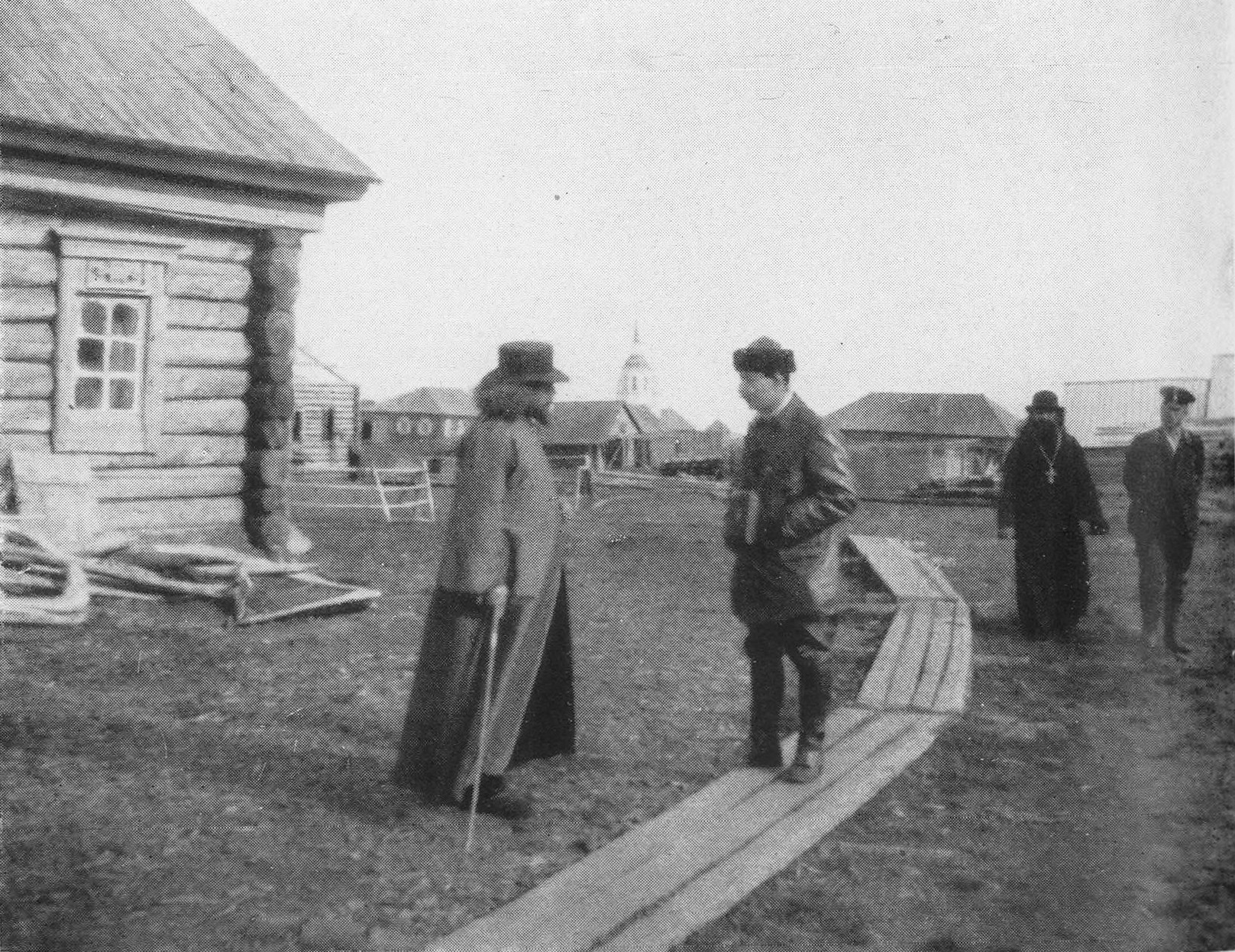 In the street of Troitskiy Monastir